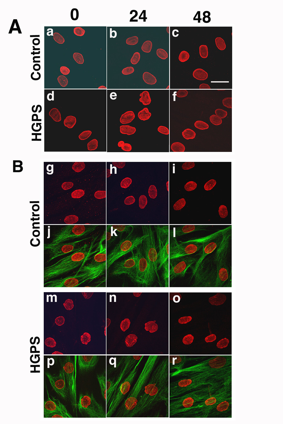 Confocal analysis of dermal fibroblasts after heat shock stress. Cells were incubated at 45°C for 30 minutes, then either immediately fixed (time 0) or allowed to recover for 24 or 48 hours at 37°C. Cells were processed for indirect immunofluorescence labelling using anti-lamin A/C antibodies (panel A, a to f), anti-lamin B1 antibodies (panel B, g to r) and anti-vimentin antibodies (panel B j to i and p to r). Control and HGPS fibroblasts are indicated. (A) Fibroblasts were immunostained with anti-lamin A/C antibodies. Note the increased number of dysmorphic nuclei in HGPS fibroblasts compared to control 24 hours after recovery from heat shock. (B) Fibroblasts were immunostained with anti-lamin B1 and vimentin at times indicated after heat shock. Bar, 10 μm. Paradisi et al. BMC Cell Biology 2005 6:27